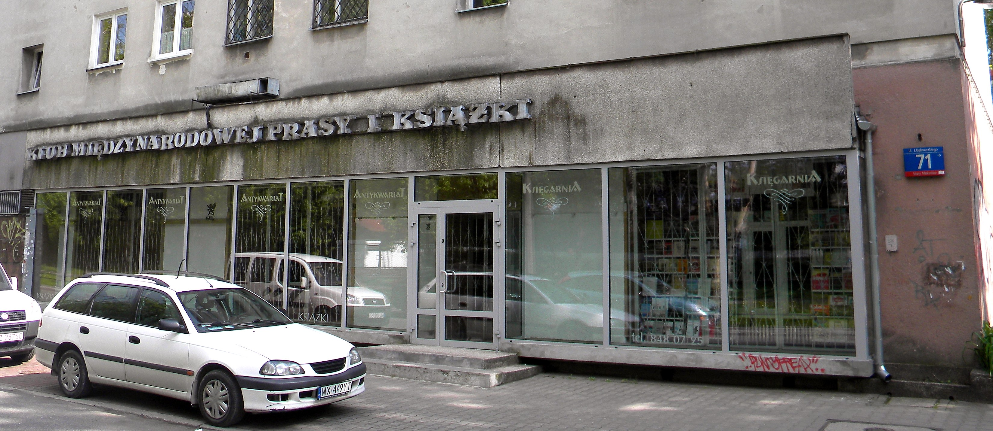 Former "Club of of International Press and Book" (KMPiK) in Warsaw, 71 Dąbrowskiego Street.